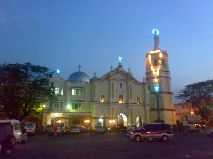 The Principal Church of Malolos City and the Roman Catholic Diocese of Malolos.In this Church,the Bishop of Malolos resides.